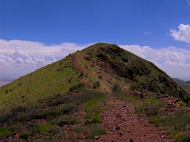 The summit ridge of North Franklin Mountain, looking south from the last switch back (el. 7,000 feet/2,133 meters). The last few steps of the North Franklin Peak Trail are straight ahead.